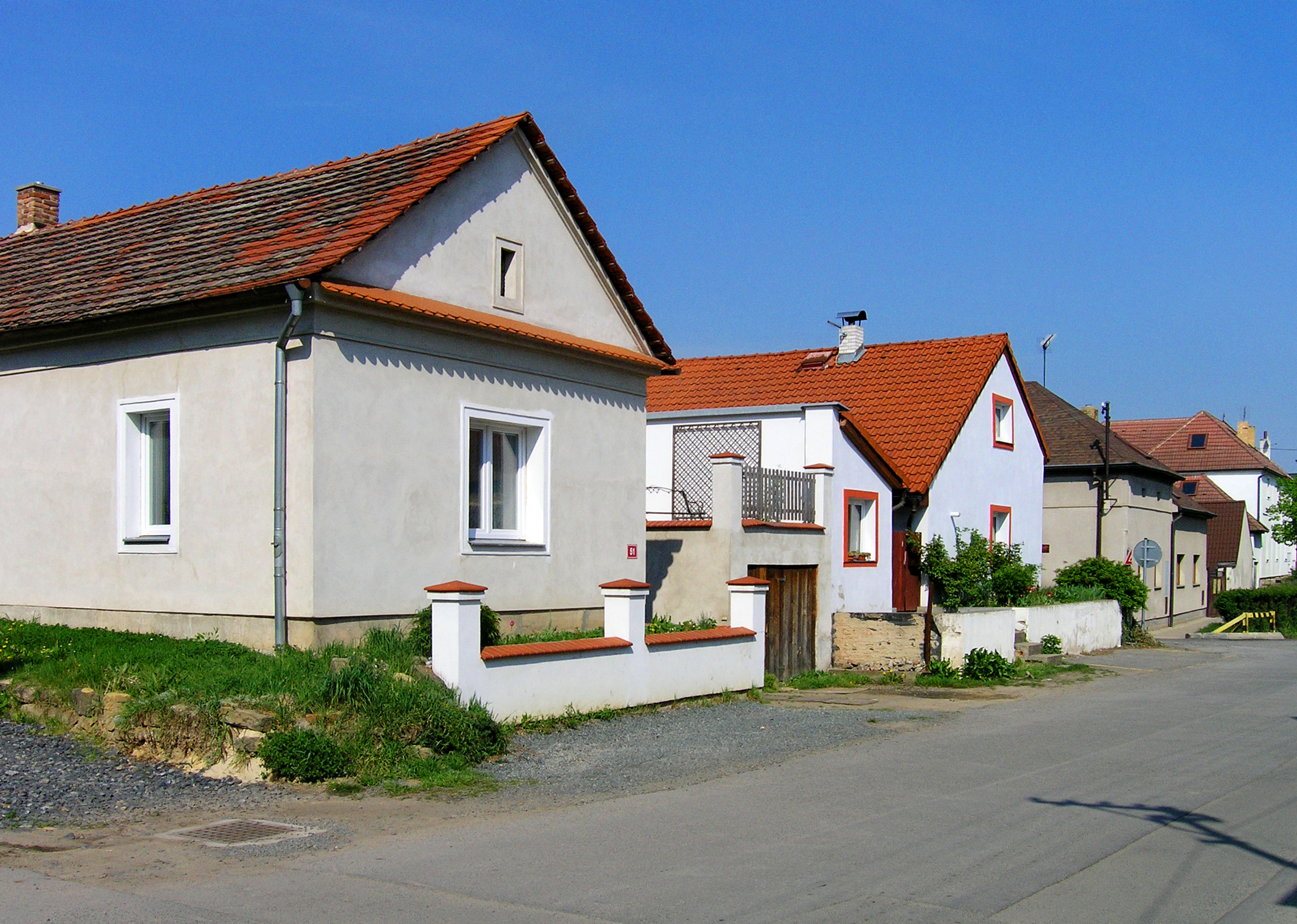 Old farm in Krátká street in Přezletice village, Czech Republic